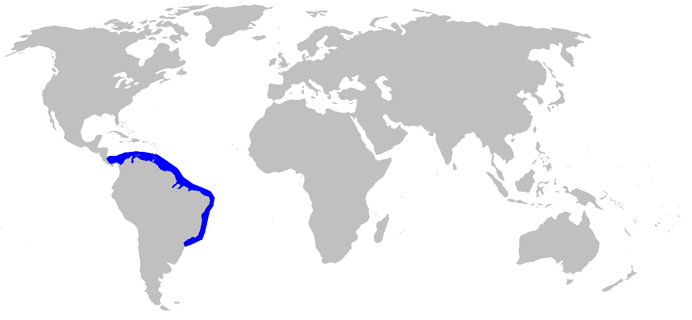 Distribution map for Rhizoprionodon lalandii